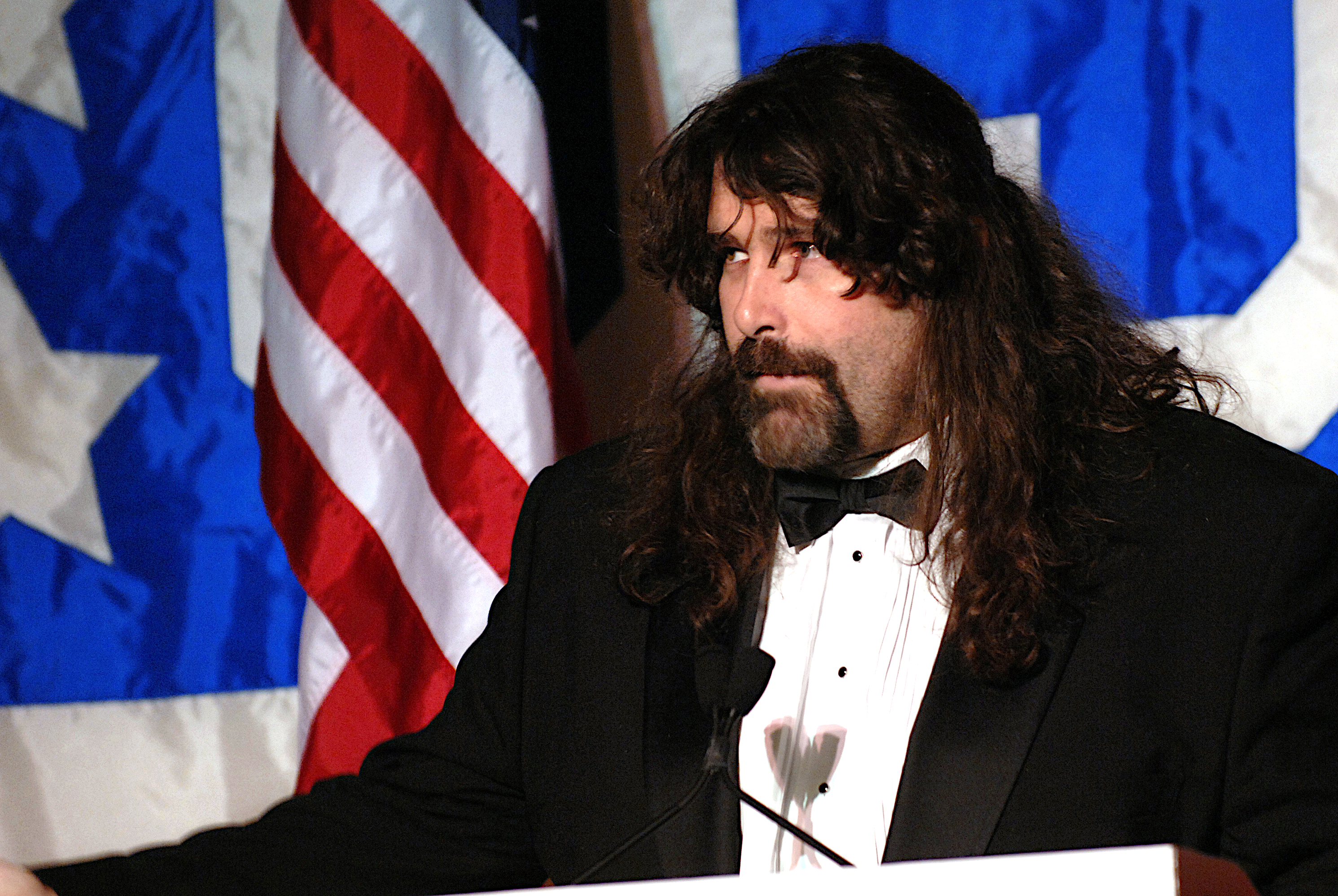 Wrestler Mick Foley speaks during the USO Metro awards in Arlington, Va., March 25, 2008. Foley is a frequent visitor to Washington, D.C., area hospitals to visit wounded troops.